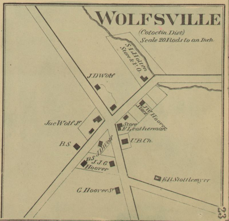 Detail of Wolfsville, Maryland from the 1873 Titus Atlas of Frederick County